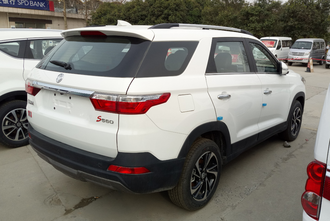 Dongfeng Fengguang S560 photographed in Zhengzhou, Henan province, China.